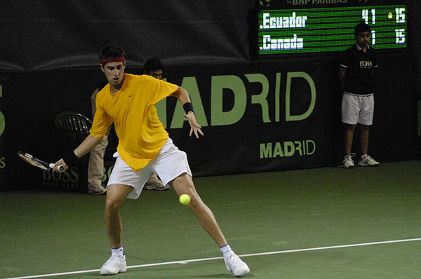 Giovanni Lapentti (Ecuador) during 2009 Davis Cup against Canada.